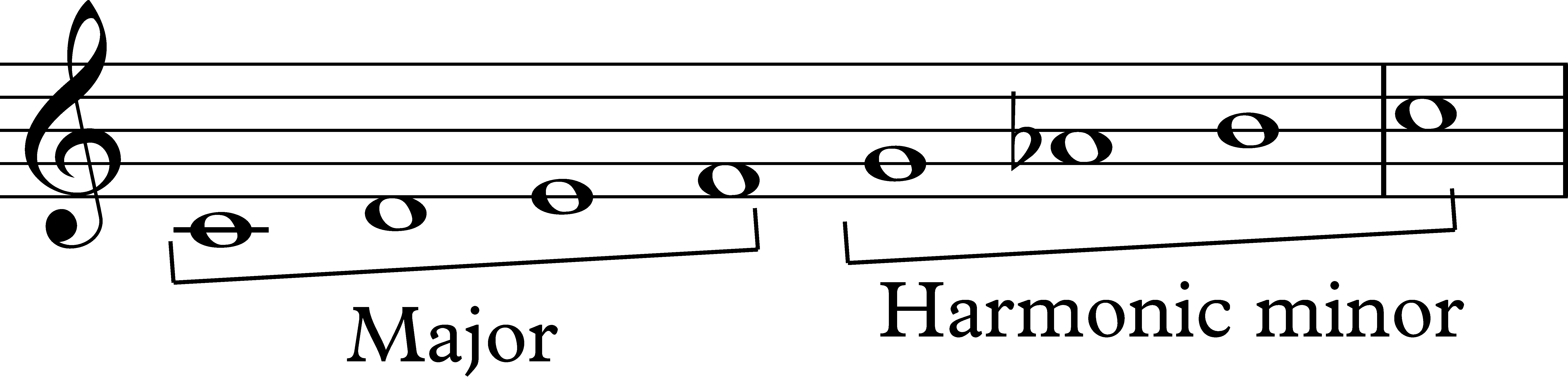 Harmonic major scale on C.